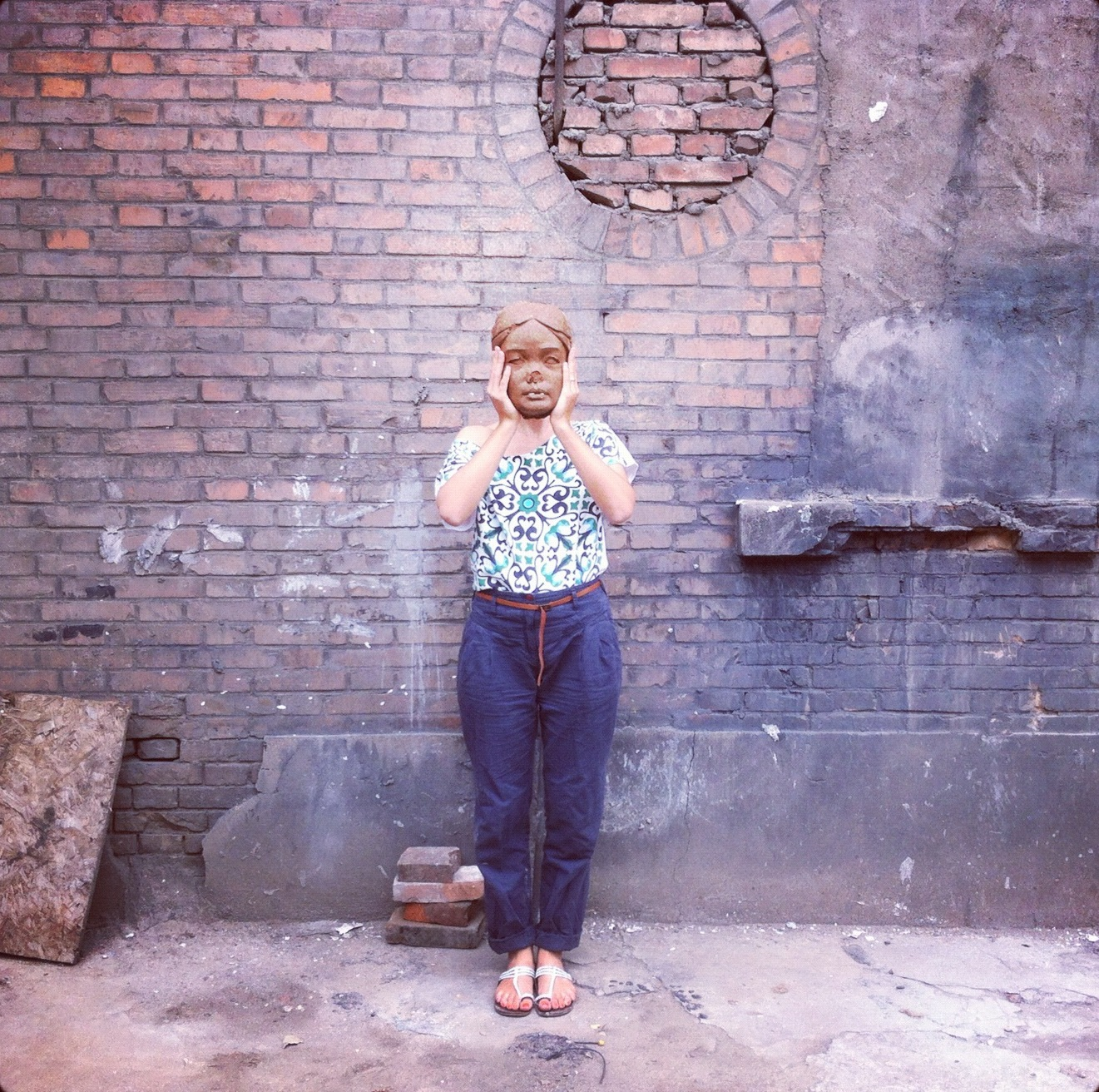 Portrait of Prune Nourry